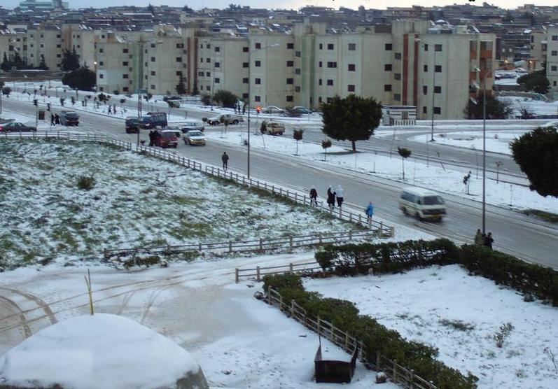 The new Bayda neighborhood from the west, Bayda - Libya